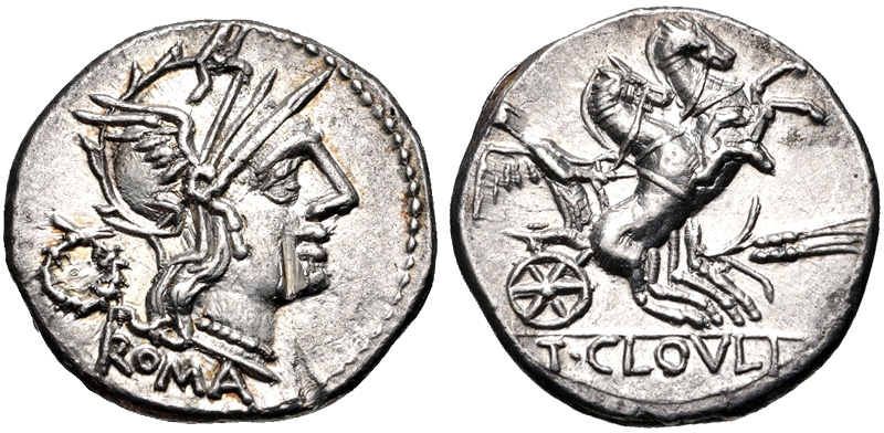 T. Cloelius. 128 BC. AR Denarius (19mm, 3.80 g, 10h). Rome mint. Helmeted head of Roma right; wreath behind / Victory driving rearing biga right, holding reins; stalk of grain below horses. Crawford 260/1; Sydenham 516; Cloulia 1. EF, gouge across Roma’s cheek and edge.